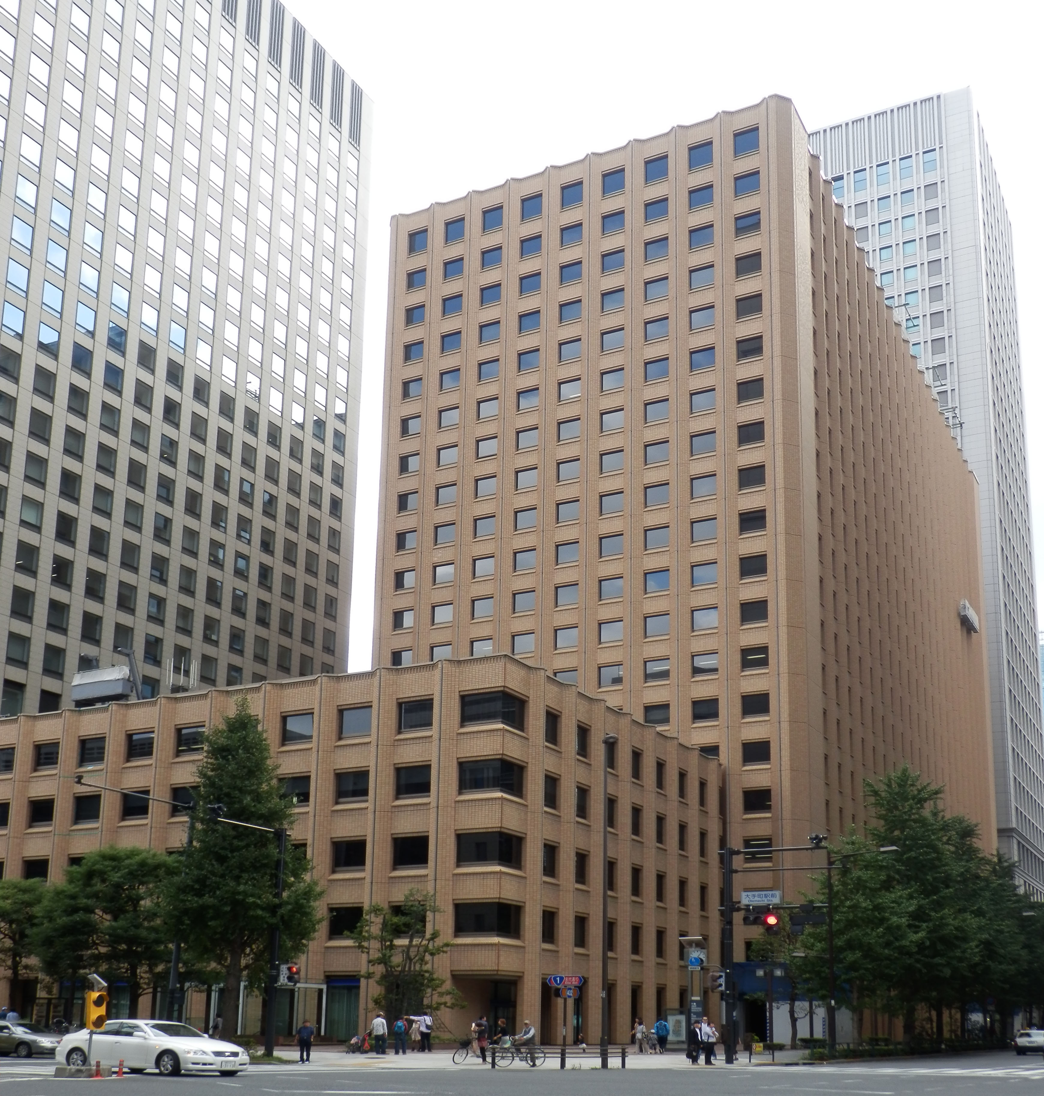 Marunouchi Center Building (Office building in Tokyo, Japan)